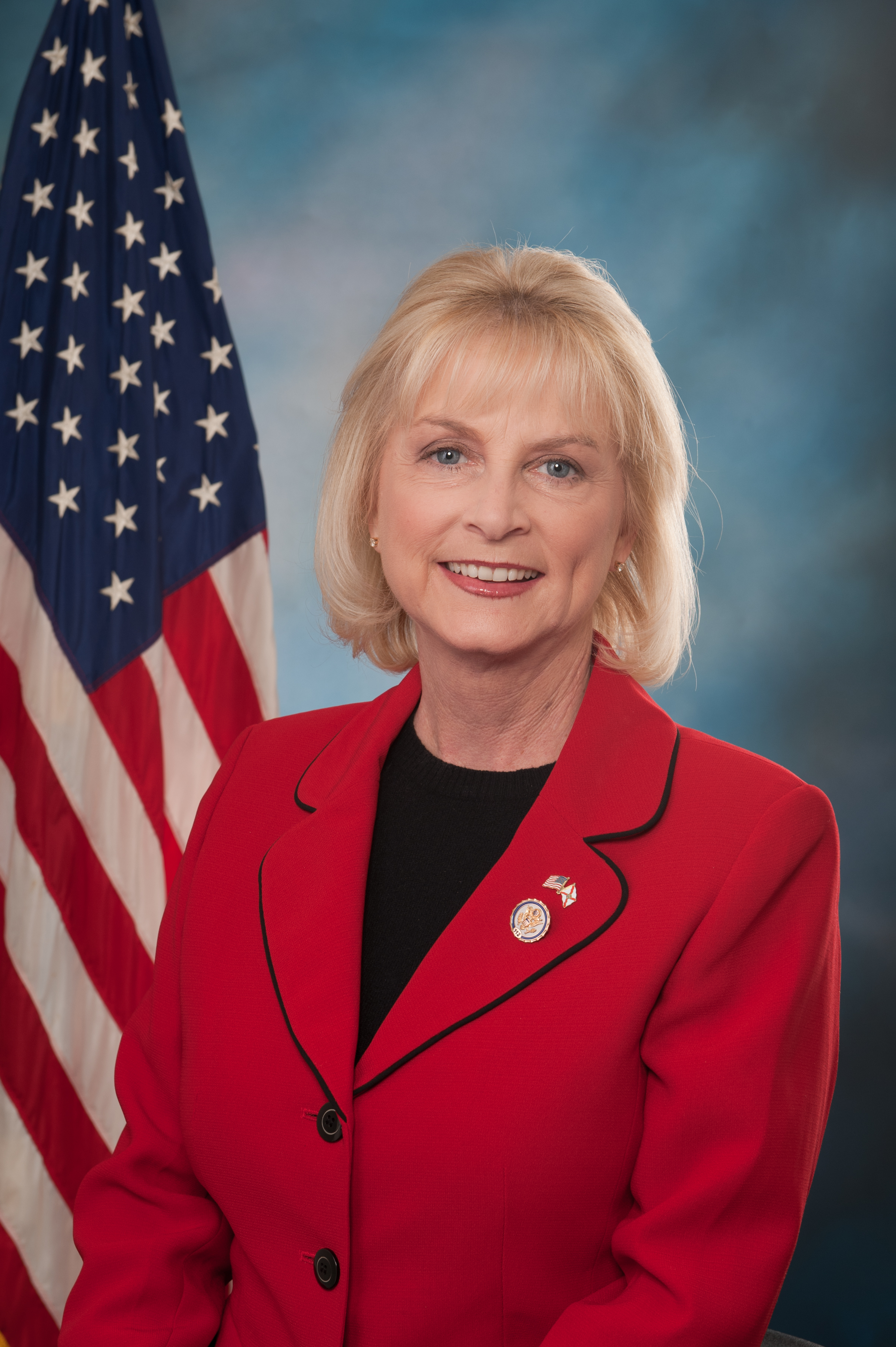 Official portrait of US Rep Sandy Adams